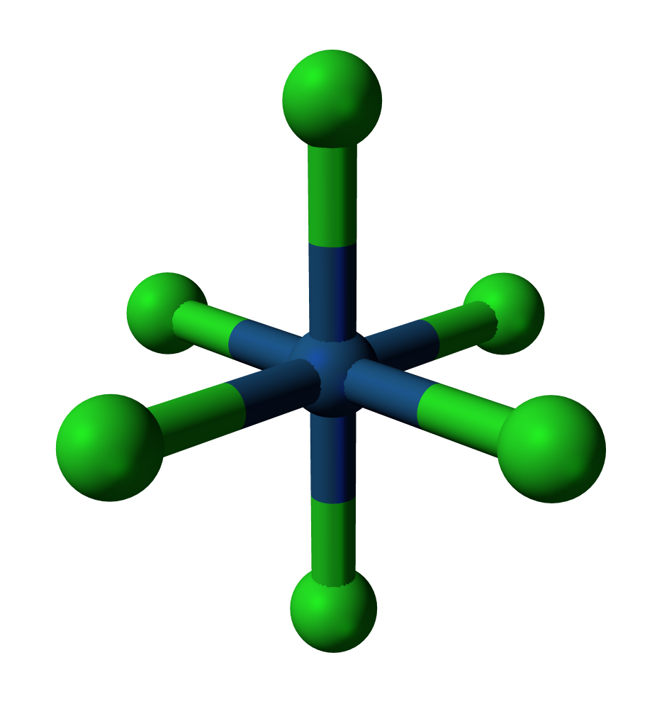 Ball-and-stick model of the hexachloroplatinate anion, [PtCl6]2-, from the crystal structure. X-ray crystallographic data from Acta Crystallographica B (39,1983-) (1998) 54, p121-p128.